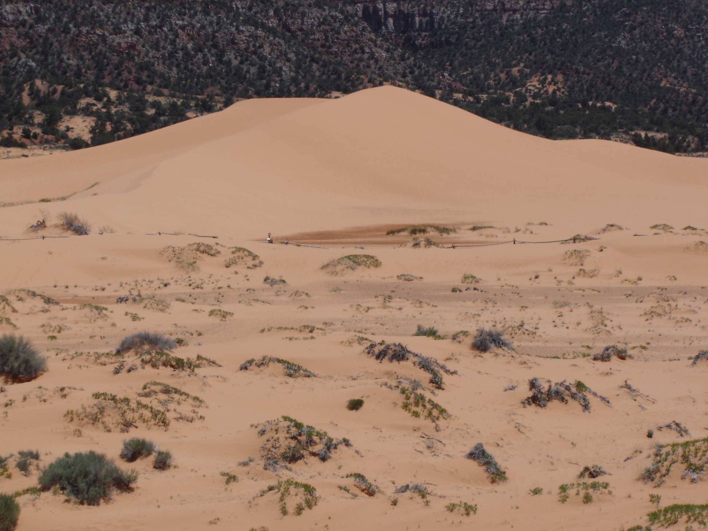 These sand dunes are pink because they are from Navajo Sandstone.